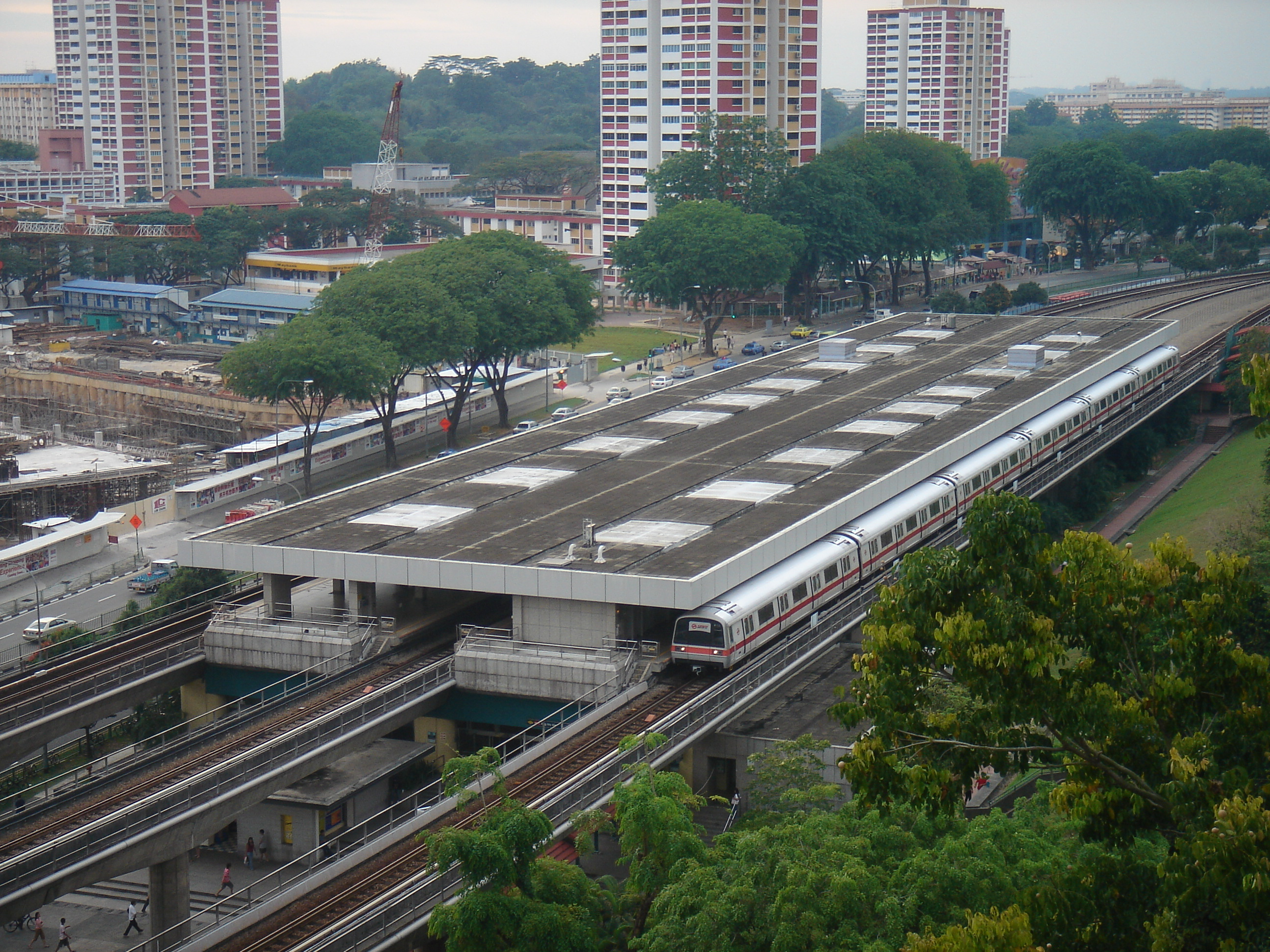 Top view of Ang Mo Kio MRT Station, one of the earliest stations on the network.